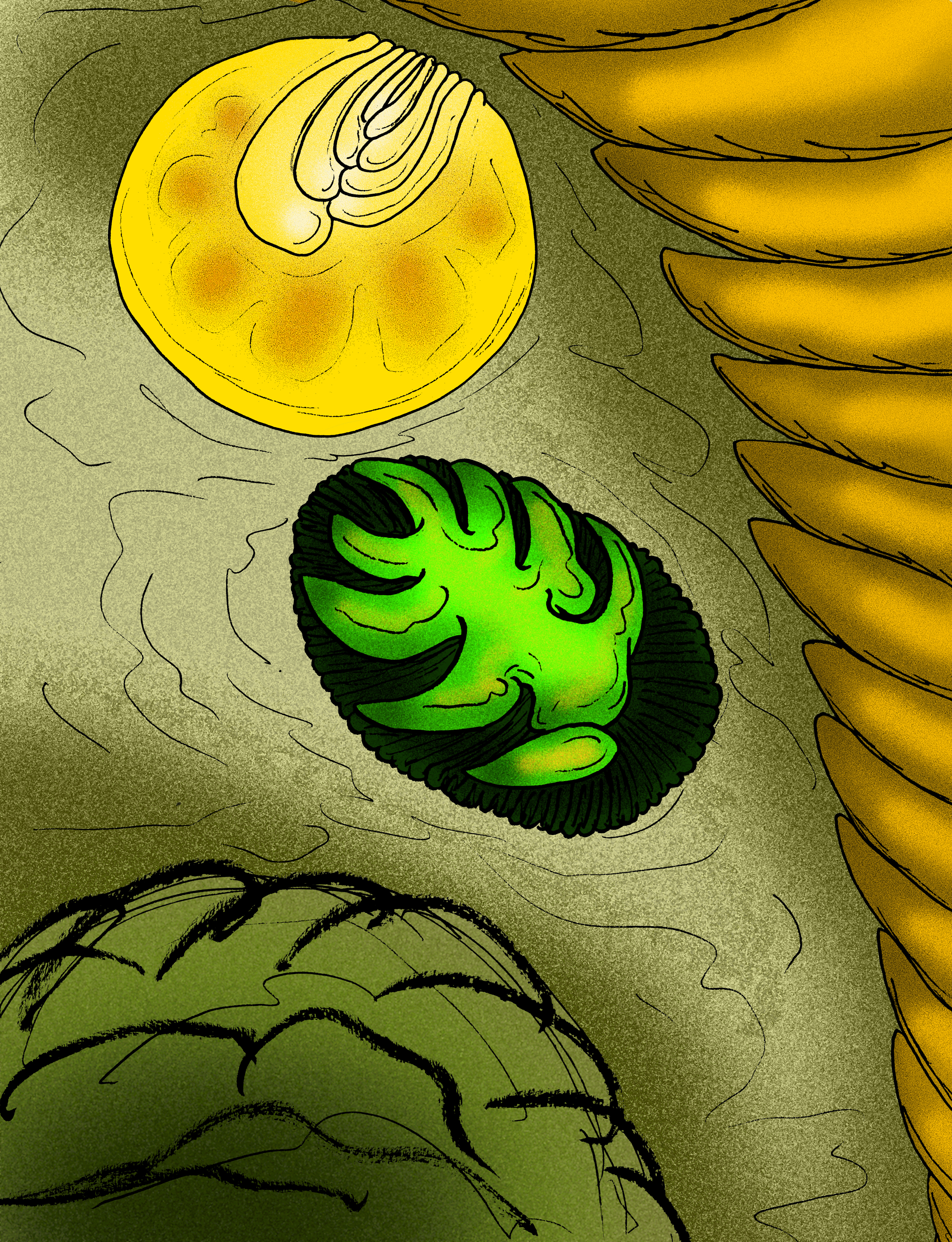 Reconstructions of the Precambrian arthropod Praecambridium sigillum, and the Ediacaran organism Yorgia waggoneri. (C) Stanton F. Fink